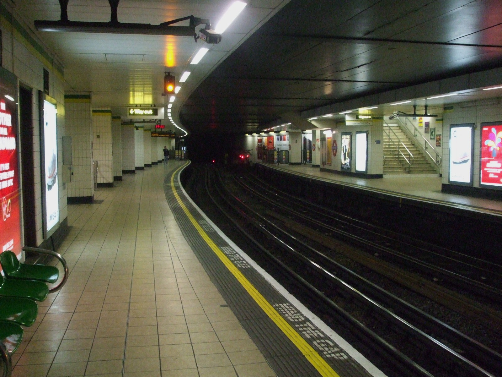 Mansion House tube station eastbound platform looking east, with the terminating platform on the right and westbound out of shot on the far right.